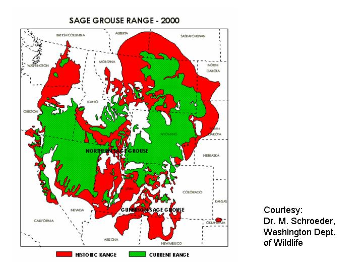 Range map of the Greater Sage Grouse (Centrocercus urophasianus) — historical (red) and present day (green) in western North America. By the U.S. Fish and Wildlife Service (2000).